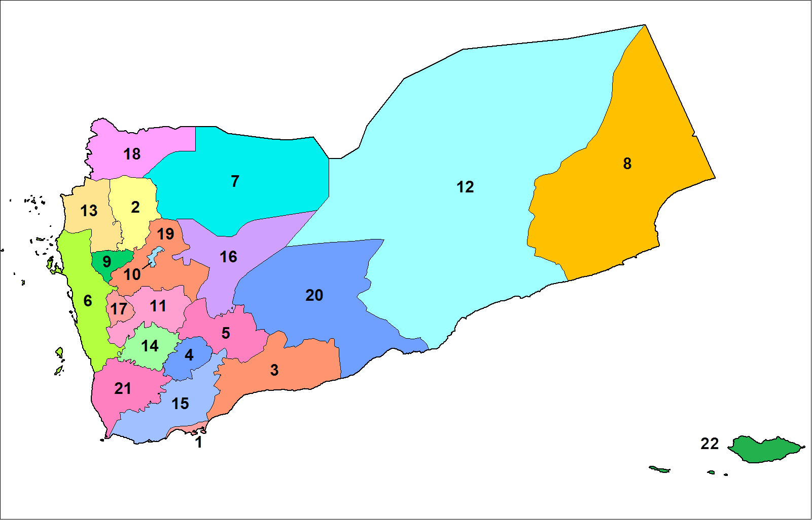 Updated map of the governorates of Yemen. Created by Rarelibra 15:44, 16 November 2007 (UTC) for public domain use, using MapInfo Professional v8.5 and various mapping resources.